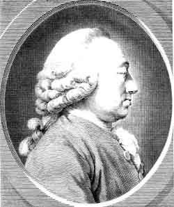 Portrait of Charles Bonnet (1720-1793), Swiss naturalist